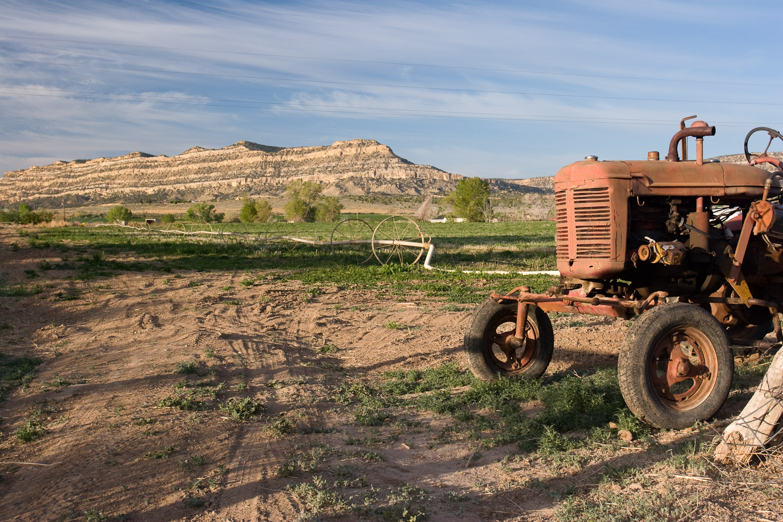 The Straight Cliffs from Escalante, Utah